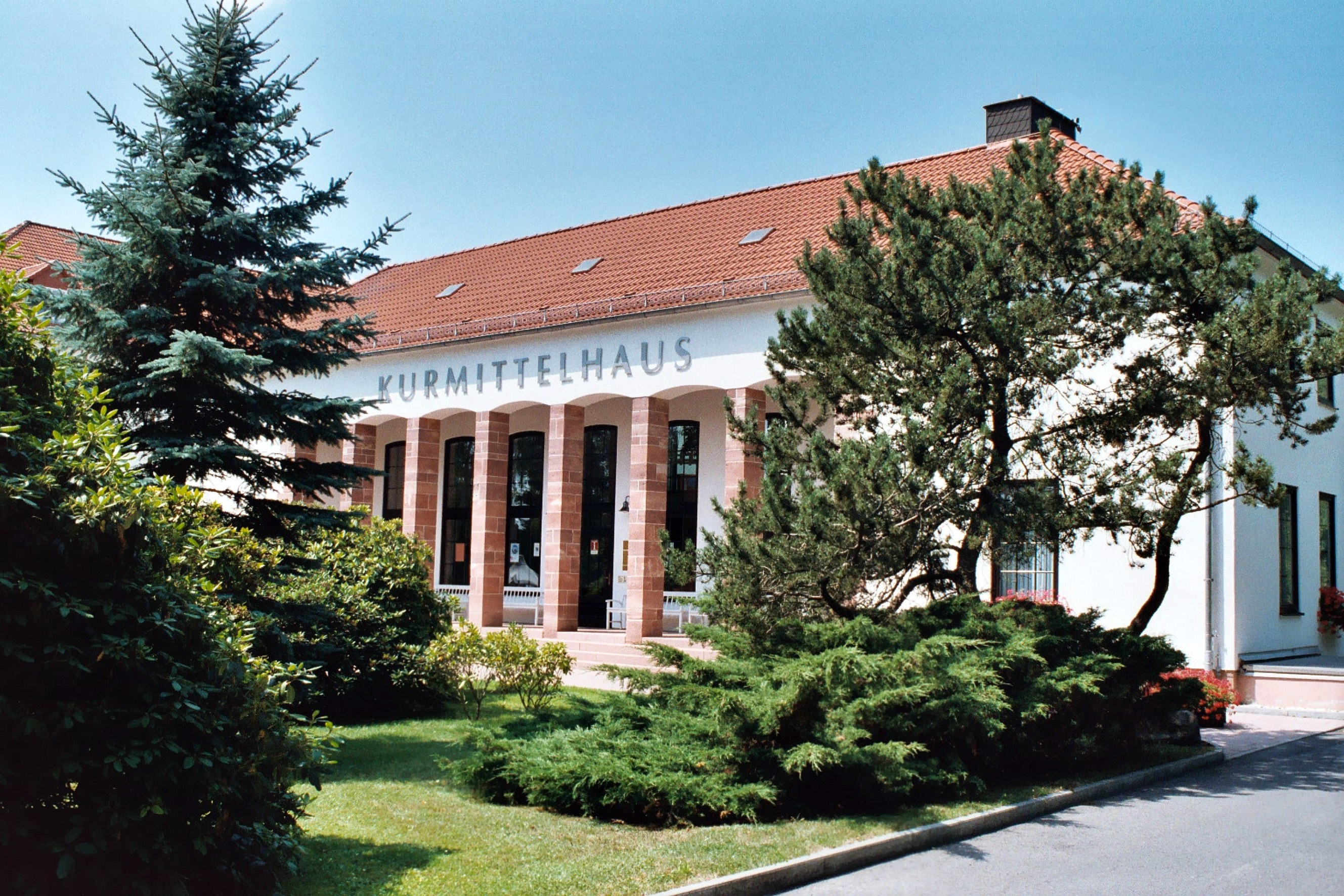 Bad Klosterlausnitz, the Kurmittelhaus